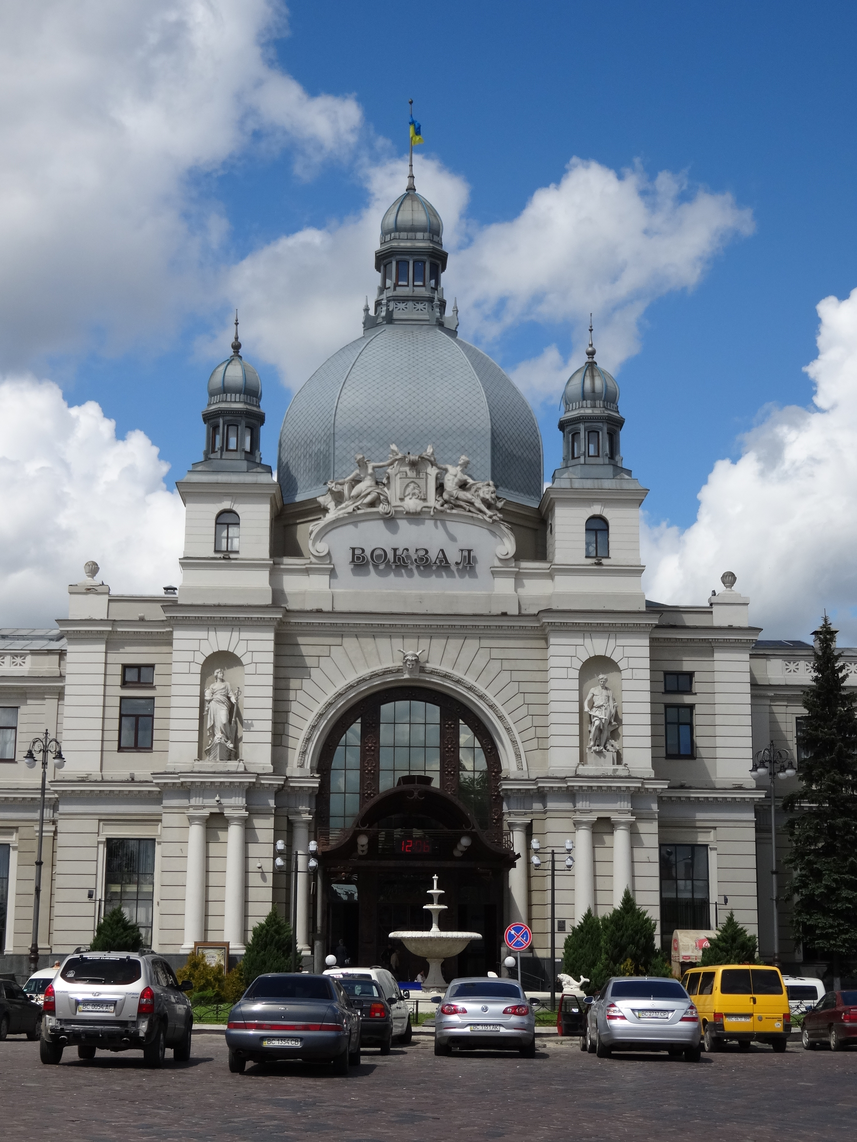 Railway station Lviv